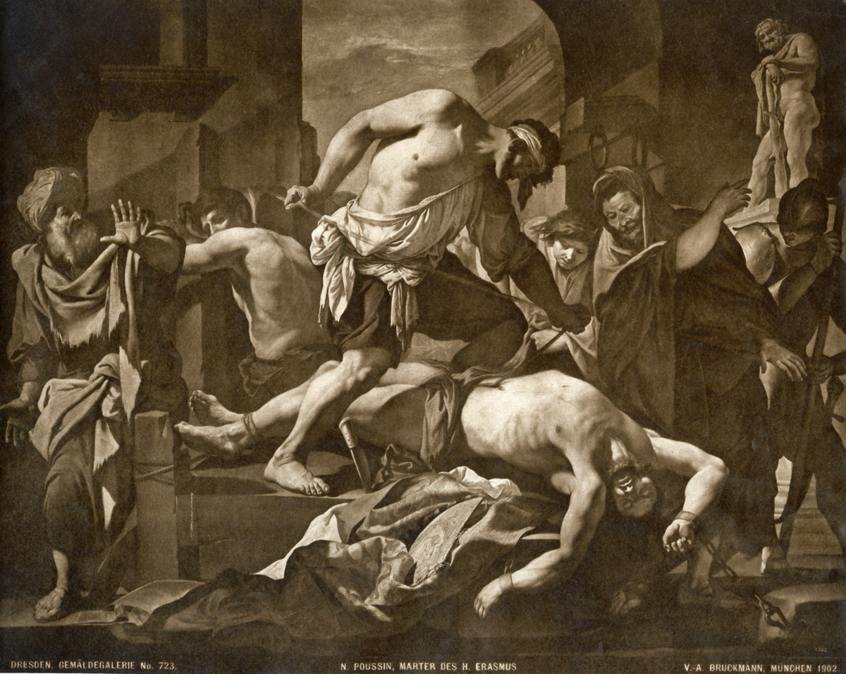 'The Martyrdom of Saint Erasmus', by Nicolas Poussin, painted ca. 1630. The work was destroyed in the Bombing of Dresden in World War II (February 1945). - Dimensions: 240 x 307 cm - Oil on canvas - Photo by V. A. Bruckmann, Munich, 1902